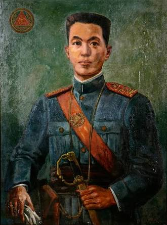 Emilio Aguinaldo Malacang Palace Portrait